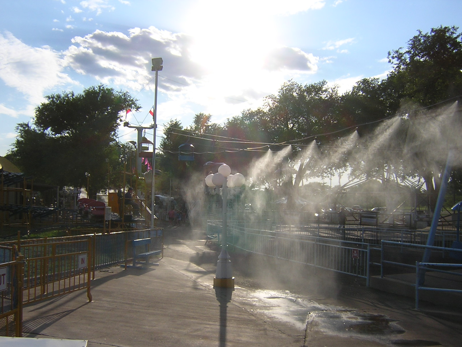 Midway, with misters, at Joyland Amusement Park in Lubbock, Texas